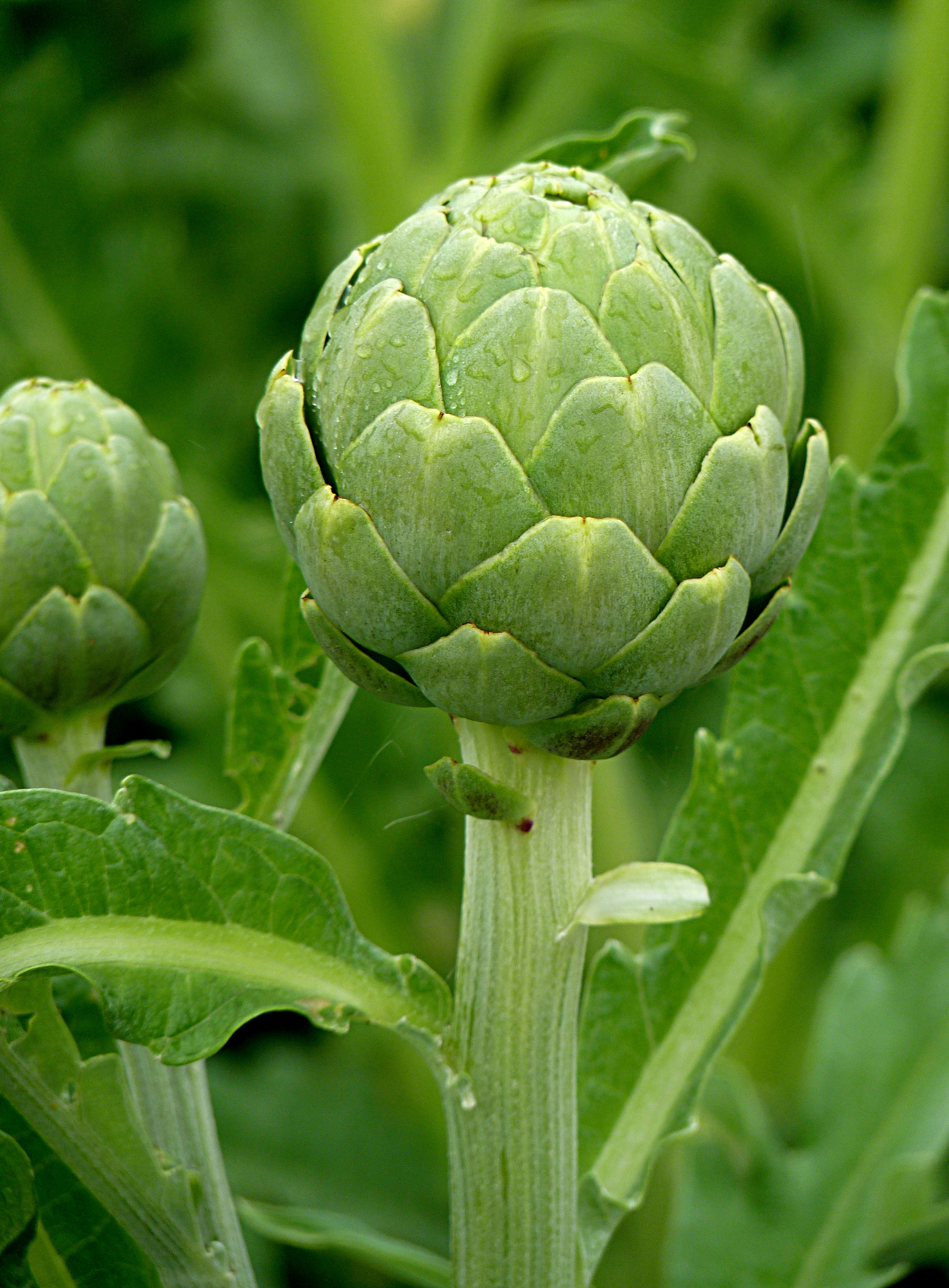 Artichoke, in a allotment in Tourcoing (Nord), France.